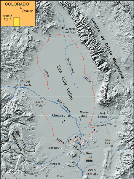 Index map showing the San Luis Basin of southern Colorado and locations mentioned in the text. A-E are key localities for dating and reconstructing the lake’s history.